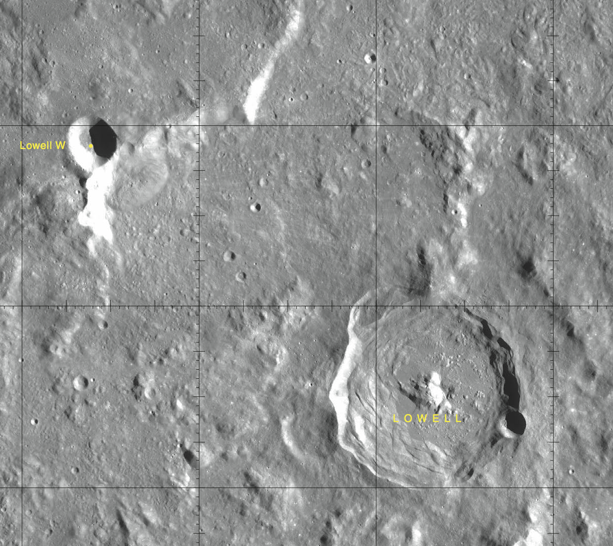 This image covers the Lowell lunar crater and its satellite crater.